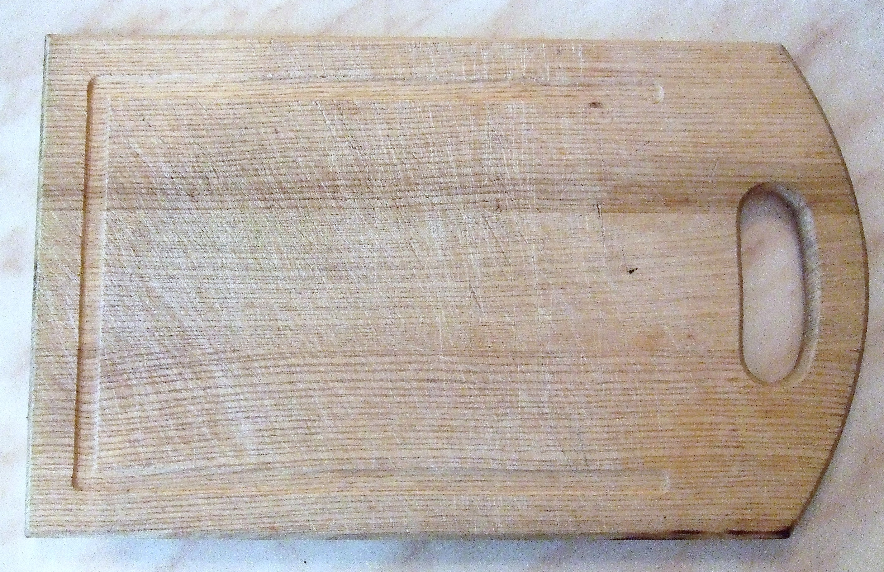 Wooden cutting board